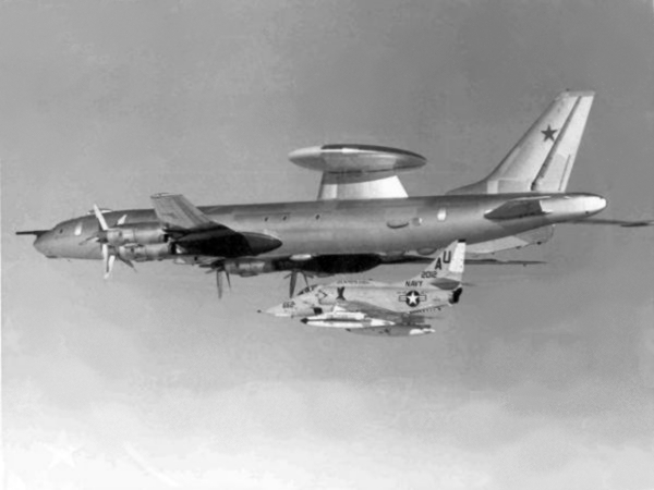 A U.S. Navy Douglas A-4E Skyhawk (BuNo 152012) of Attack Squadron 45 (VA-45) Det.1 Blackbirds intercepting a Soviet Tupolev Tu-126 Moss AEW aircraft over the Mediterranean Sea in 1973. VA-45 Det.1 was assigned to Carrier Anti-Submarine Air Group 56 (CVSG-56) aboard the aurcraft carrier USS Intrepid (CVS-11) for a deployment to the Mediterranen Sea from 24 November 1972 to 4 May 1973.